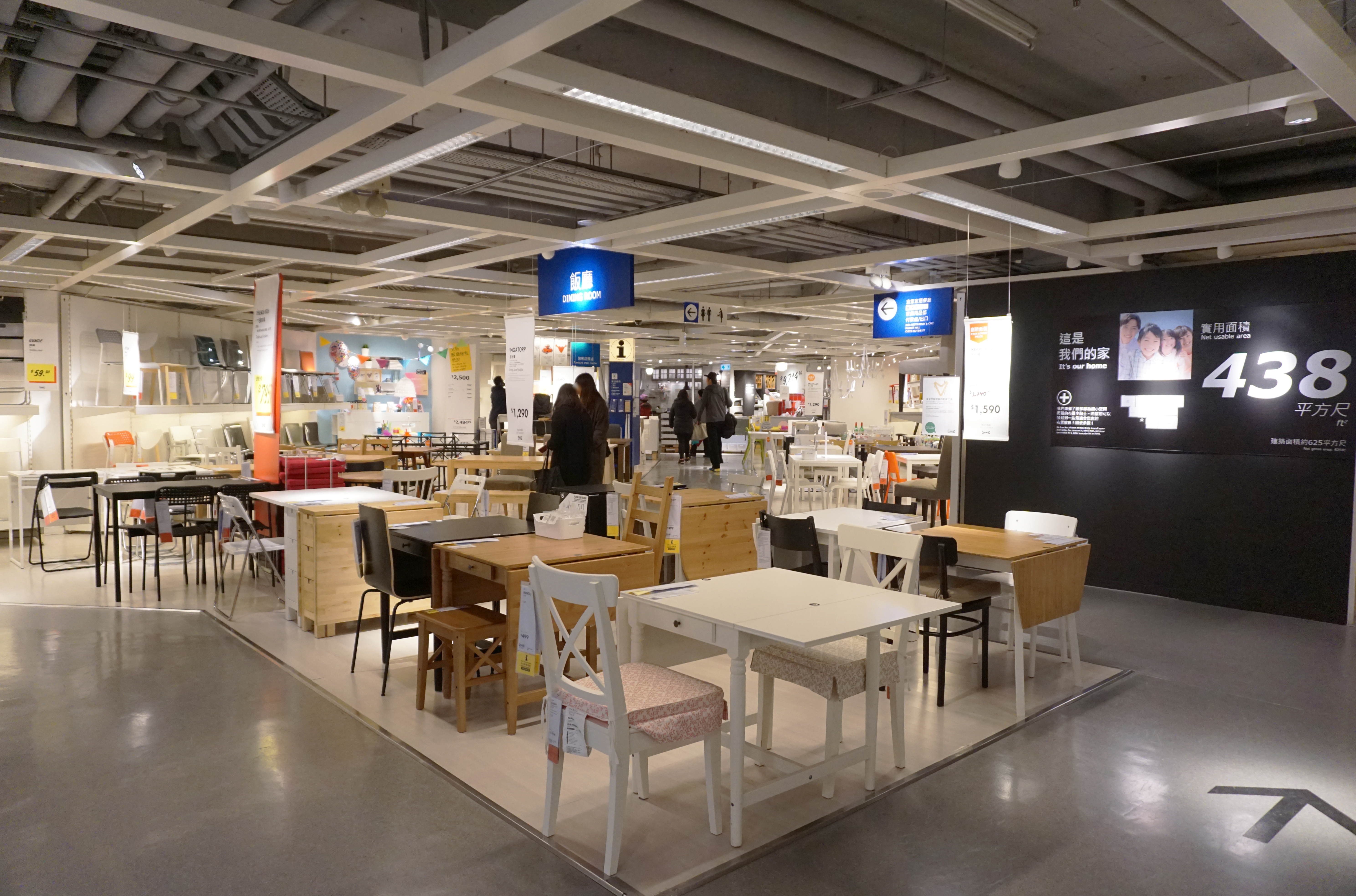 HomeSquare in Shatin, Hong Kong.